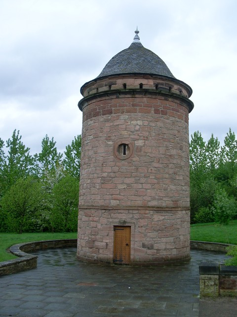 Daldowie Doo'cot Wonderful structure near Hamilton Road. Recently renovated and moved from its original site.